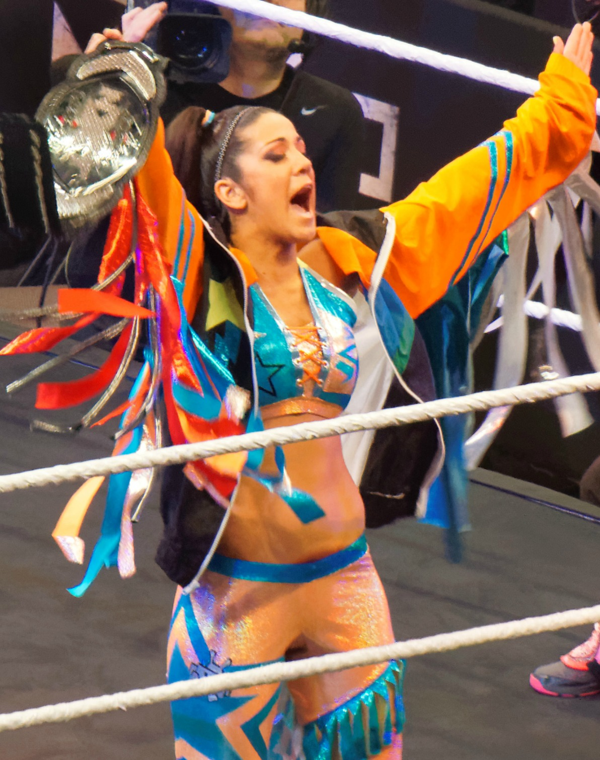 Bayley posing with her NXT Women's Championship belt at the NXT Takeover: Dallas event in April 1, 2016.